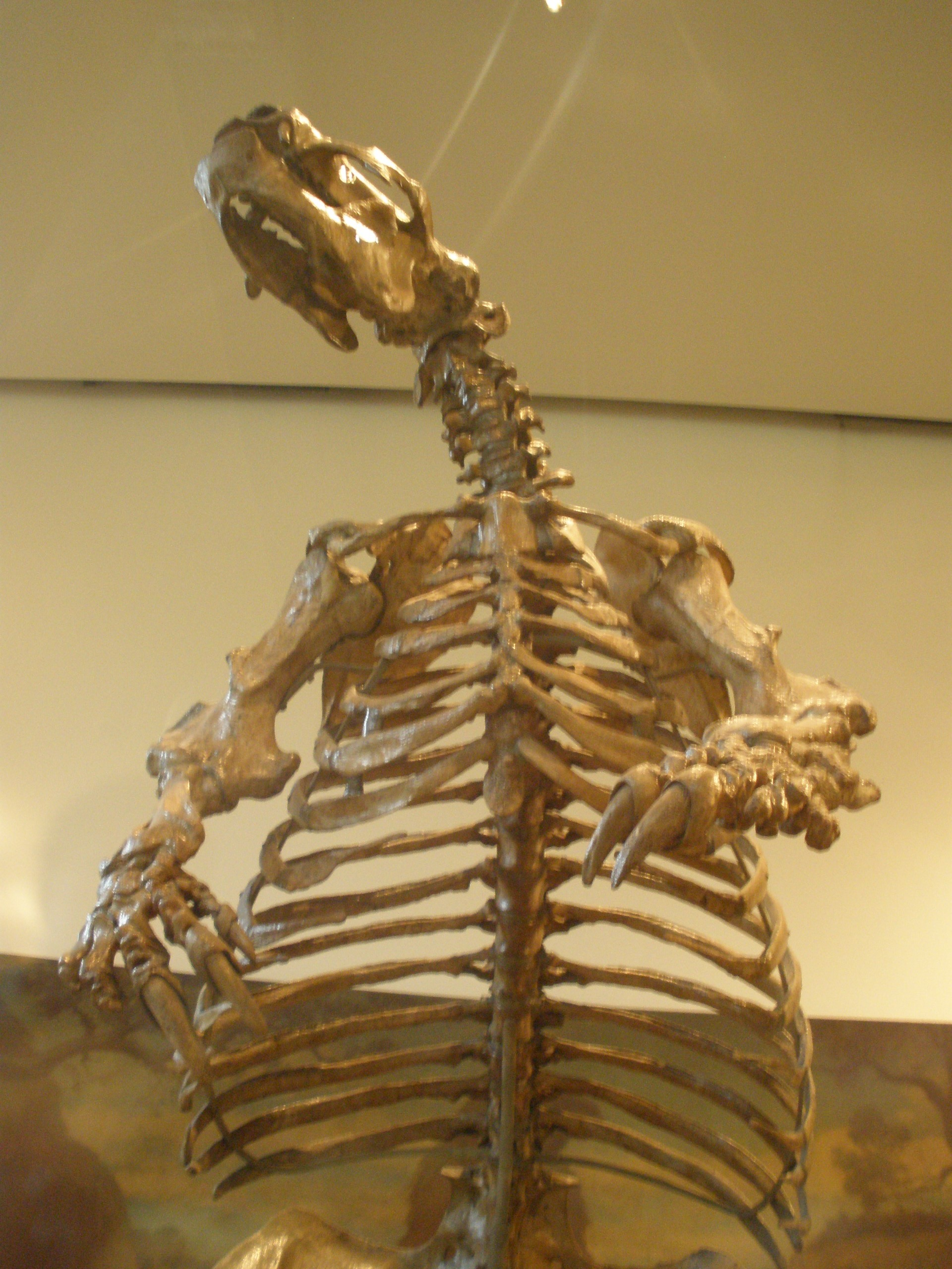 Skeleton of Glossotherium robustum, a fossil sloth